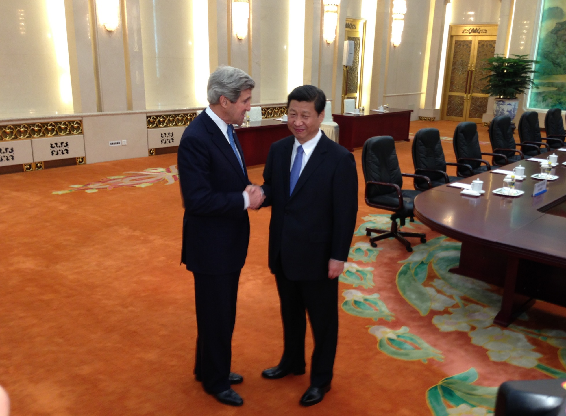 U.S. Secretary of State John Kerry is greeted by Chinese President Xi Jinping upon entering the Fujian Room at the Great Hall of the People in Beijing, China, on April 13, 2013. [State Department photo/ Public Domain]